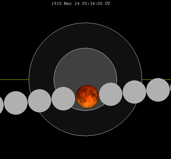 May 1910 lunar eclipse chart of moon's path through the earth's shadow. thumb